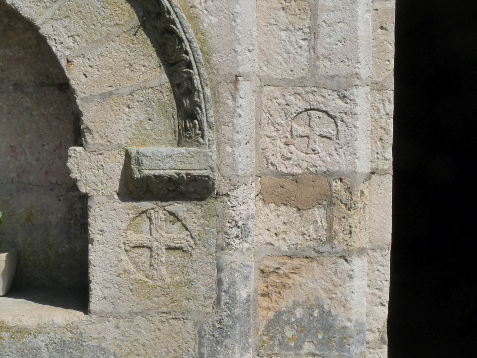 Consecration crosses, portal of the church of Charmant, Charente, SW France